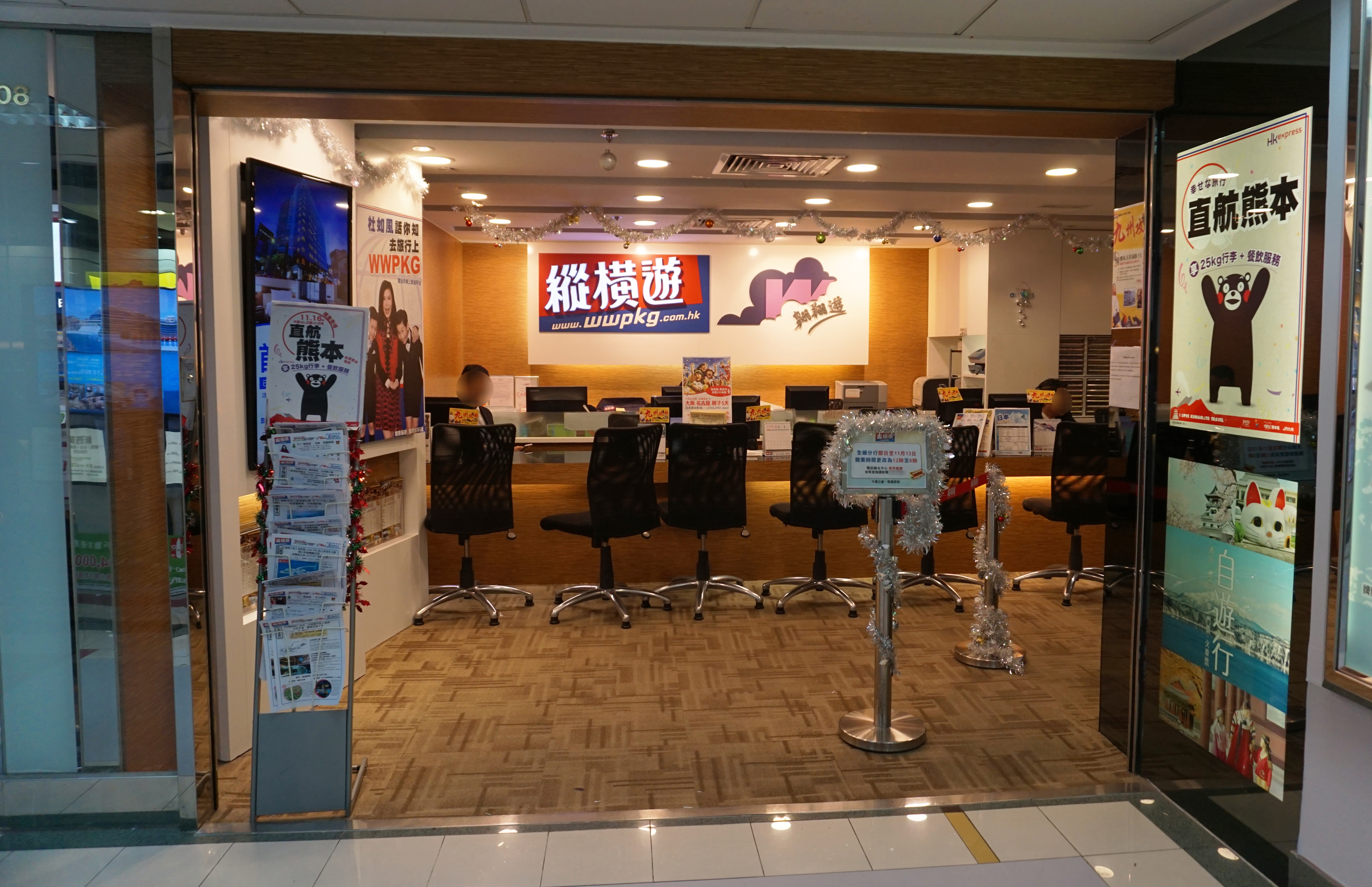 WWPKG travel agency in Hong Kong.